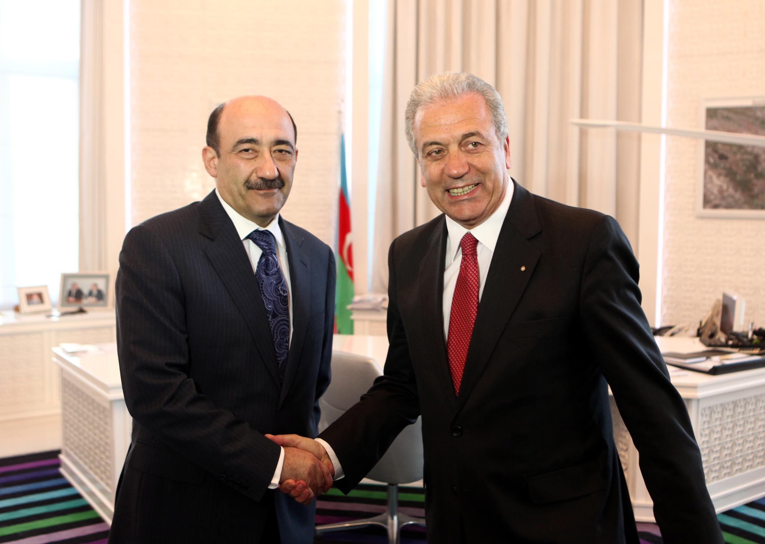 Foreign Minister of Greece Dimitris Avramopoulos (right) meeting with the Minister of Culture and Tourism of Azerbaijan Abulfas Garayev during an official visit to Baku on Monday, April 29, 2013.